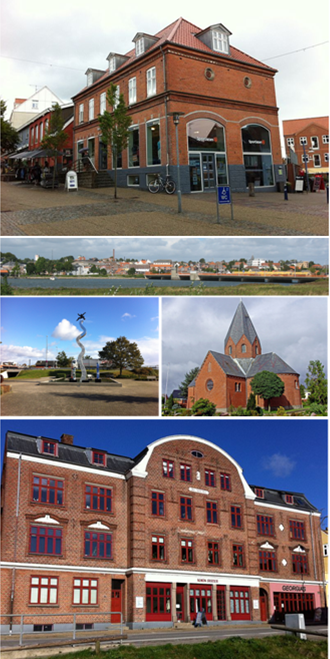 Collage med Hadsund, Danmark Store in Hadsund pedestrian Hadsund bridge as seen from Hadsund Syd Fountains at the port of Hadsund Hadsund Church The Red House